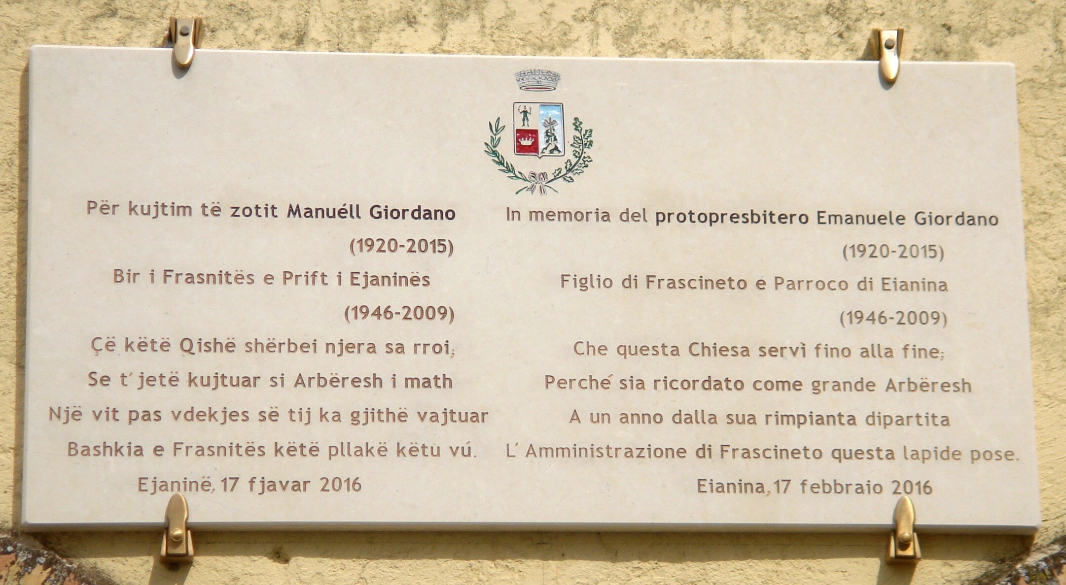 Memoria plaque of the archpriest and papas of Ejanina, Emanuele Giordano